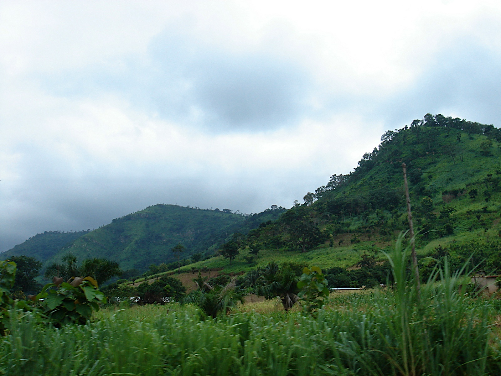 Hilly landscape near Kpalimé, Togo